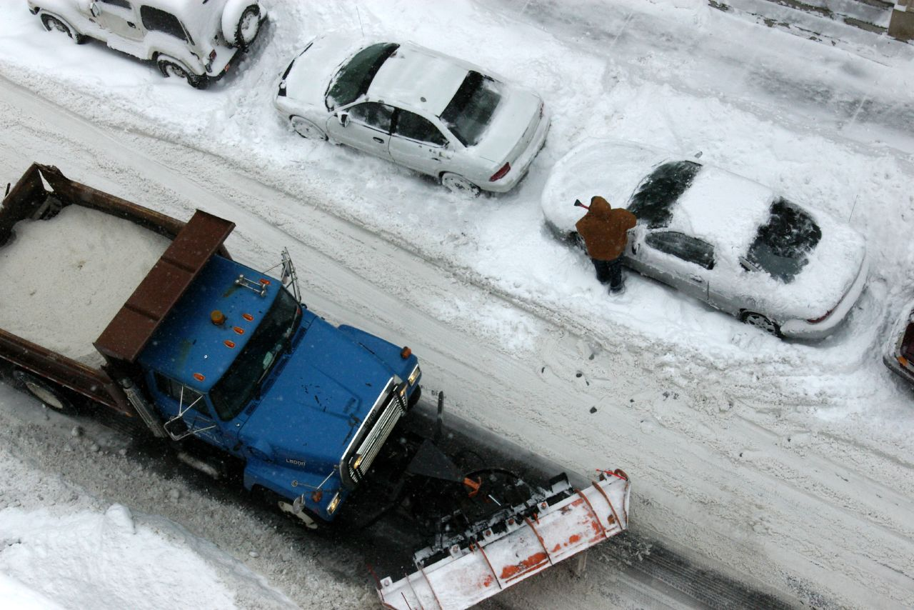 Oak Grove St., Minneapolis, Minnesota, USA